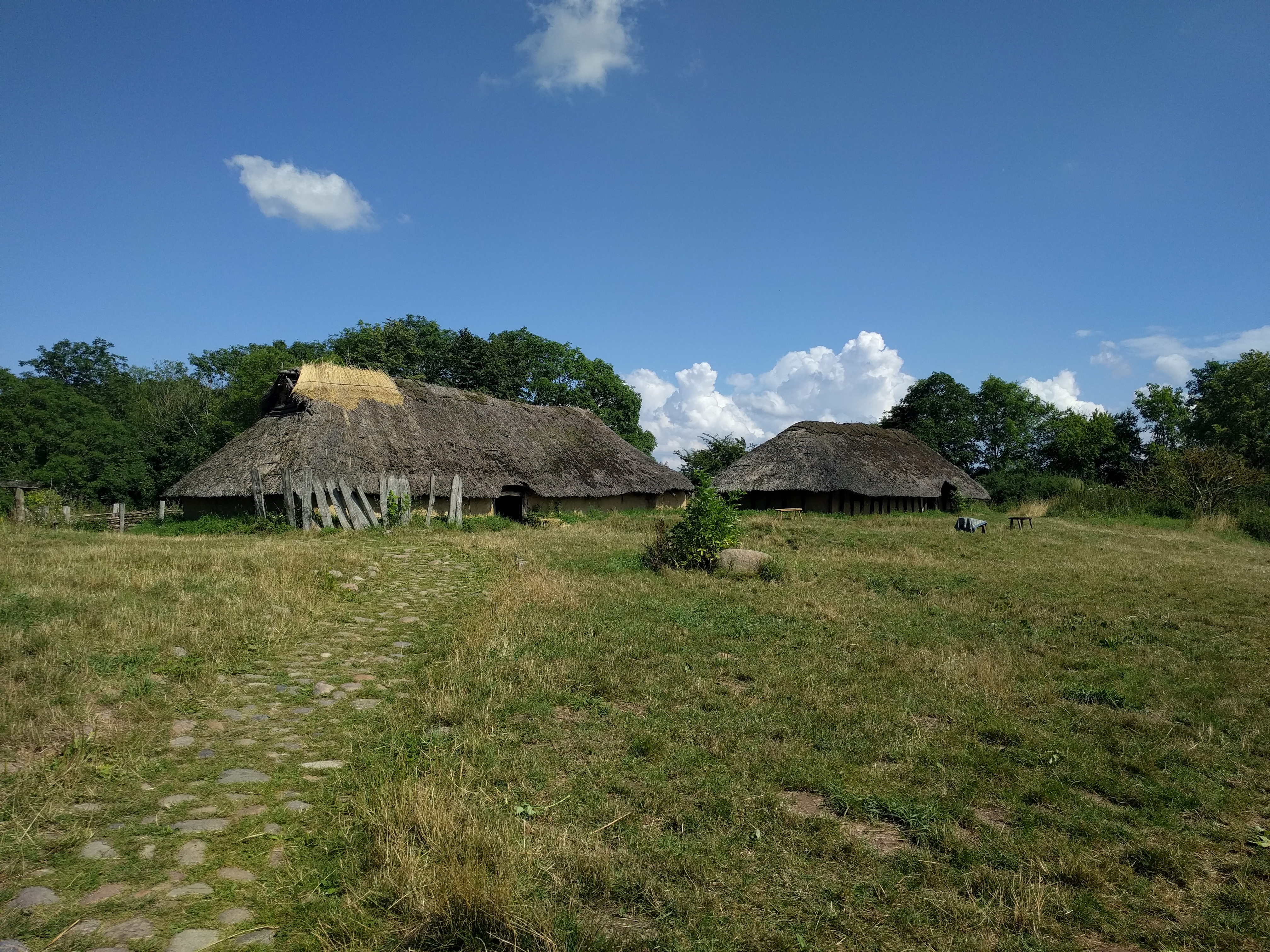 reconstruction of an Iron Age village in Land of Legends open air museum, Denmark